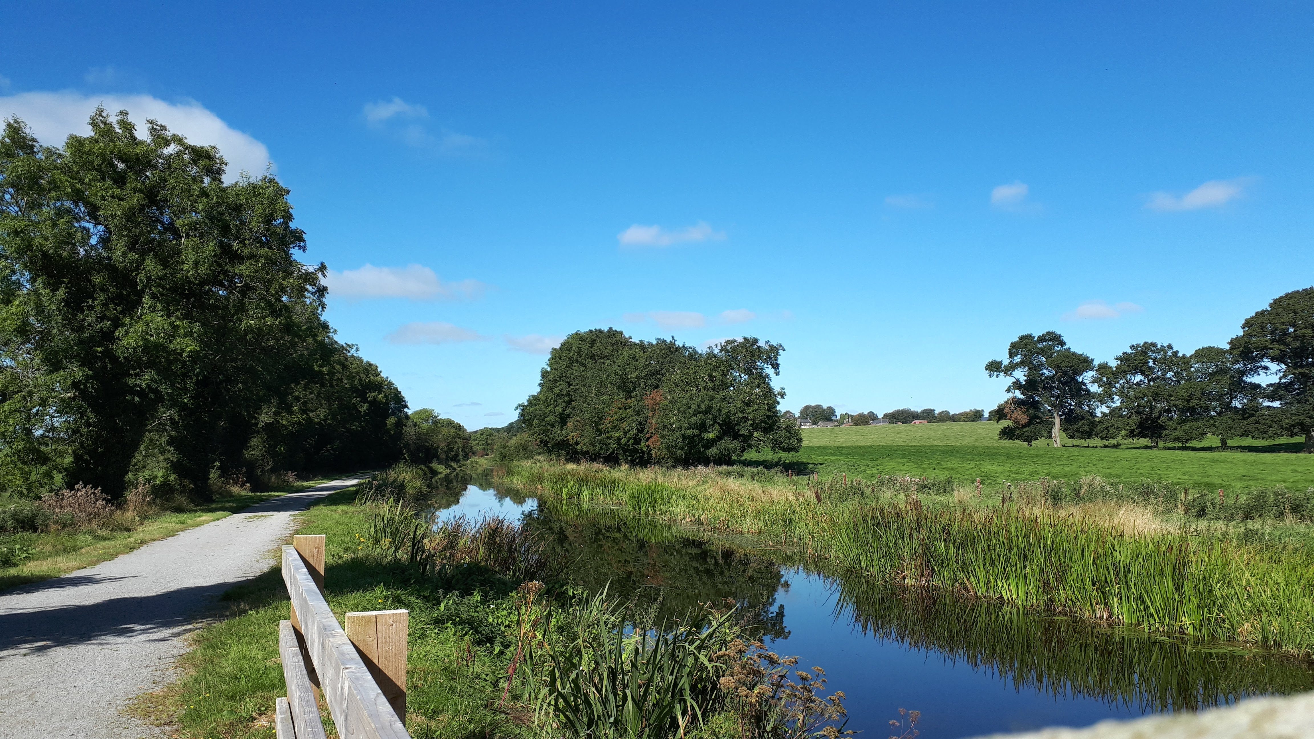 Royal Canal near Enfield, County Meath. 17 September 2019.